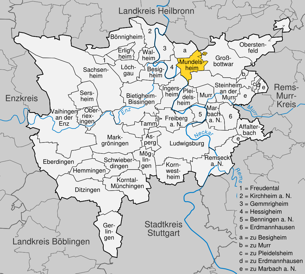 position of Mundelsheim within distict of Ludwigsburg, Baden-Württemberg, Germany